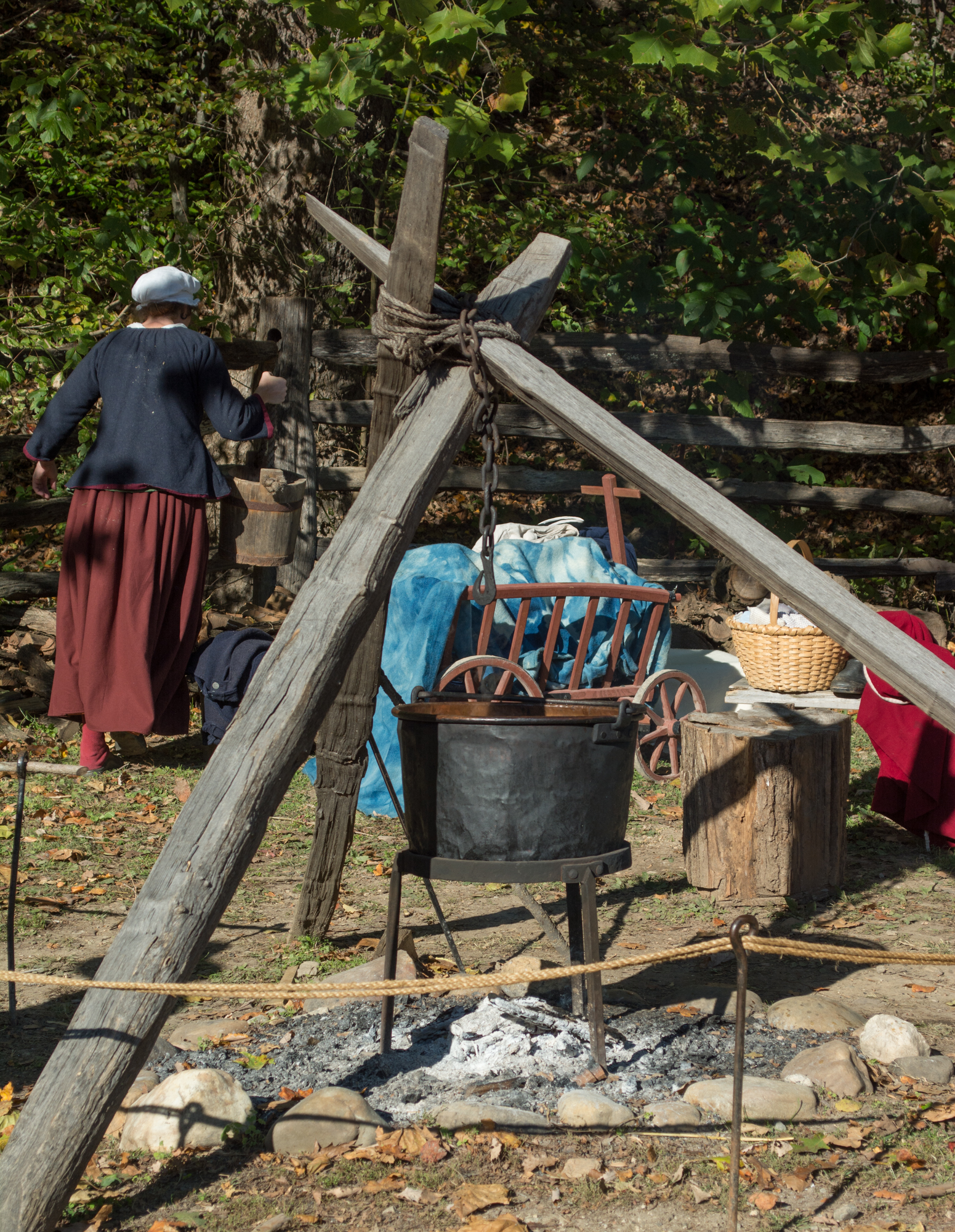 Historical re-enactors boiling clothes for laundry at the Slave's Cabin on the Pioneer Farm at Mount Vernon, the home of George Washington, near Mount Vernon, Virginia, in the United States.